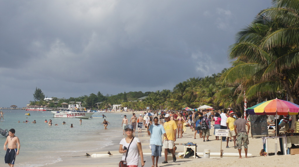 West End Beach, Roatan, Bay Islands, Honduras